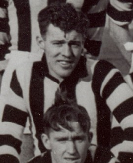 Photo of Jim Tibballs in 1944